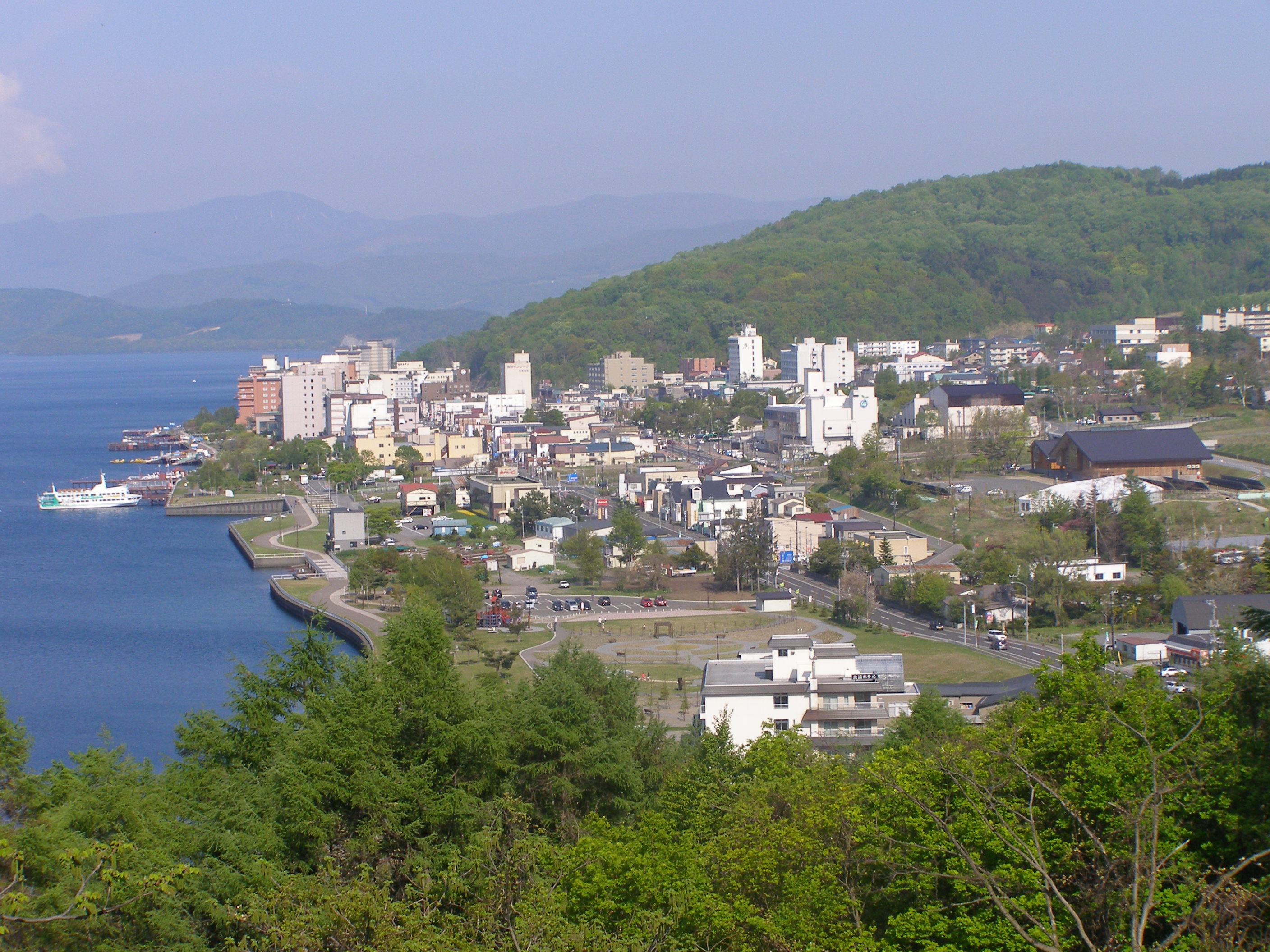 View of Tōyako-onsen town (Tōyako-town, Hokkaidō, JAPAN) 洞爺湖温泉町全景 (北海道洞爺湖町洞爺湖温泉)